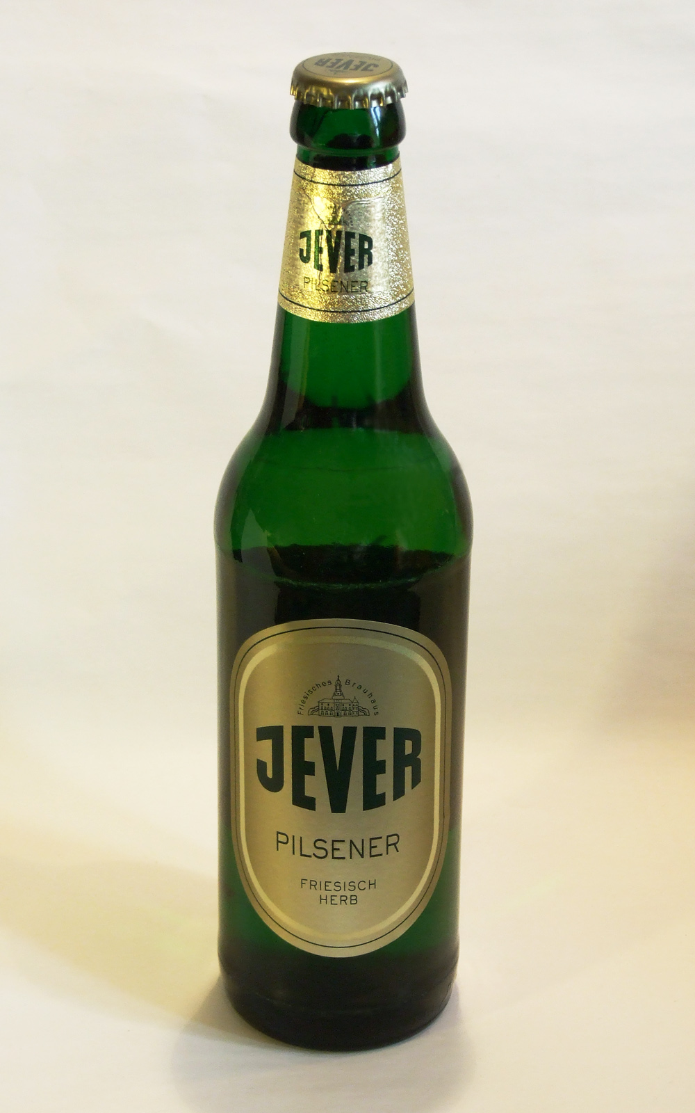 Bottle of Jever (German beer)